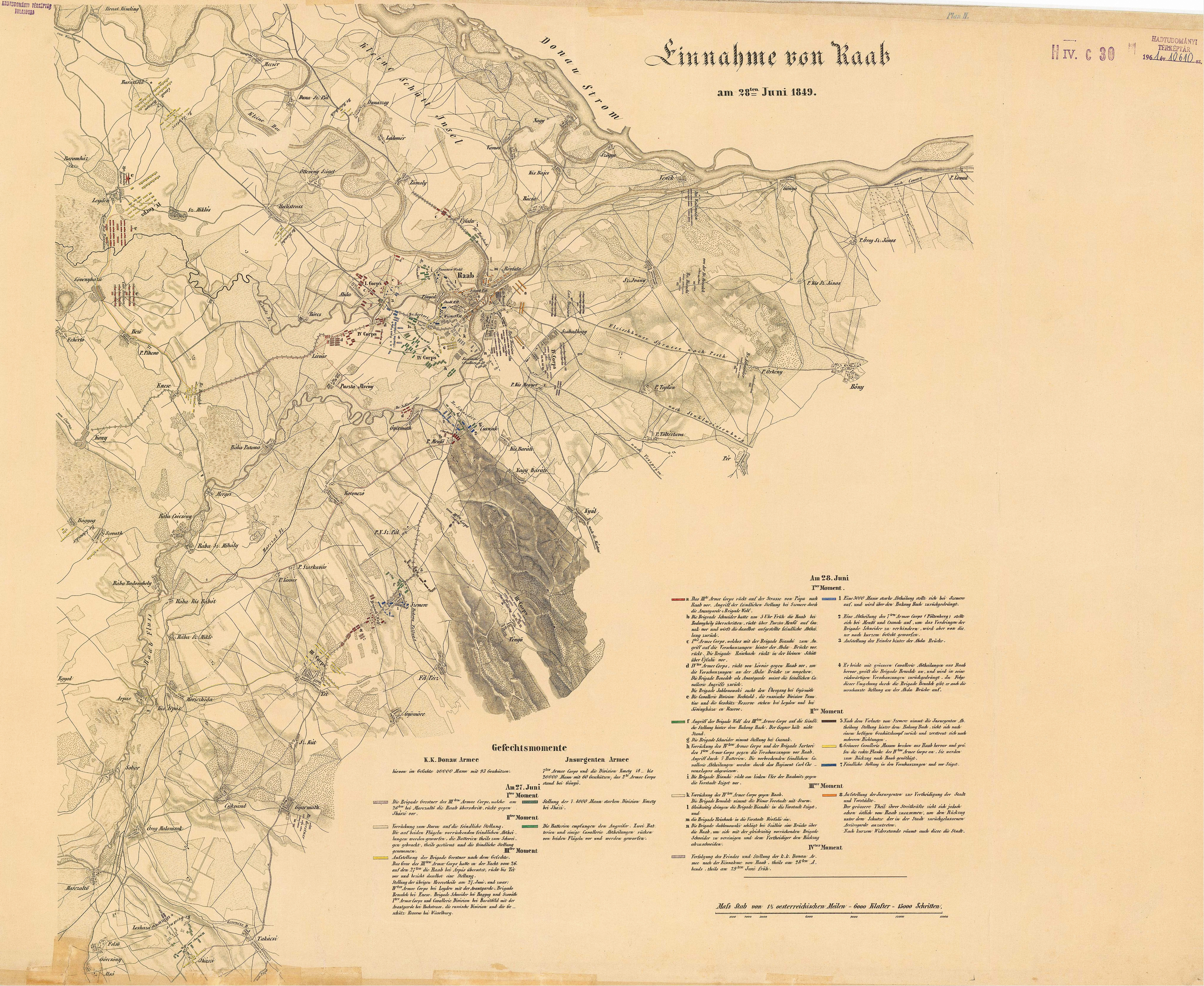 Battle of Győr 28 June 1849 in a battle map collection from the 1850's